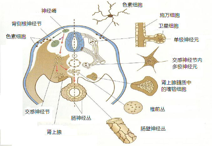 Embryonal_envelopment_of_neutral_crest